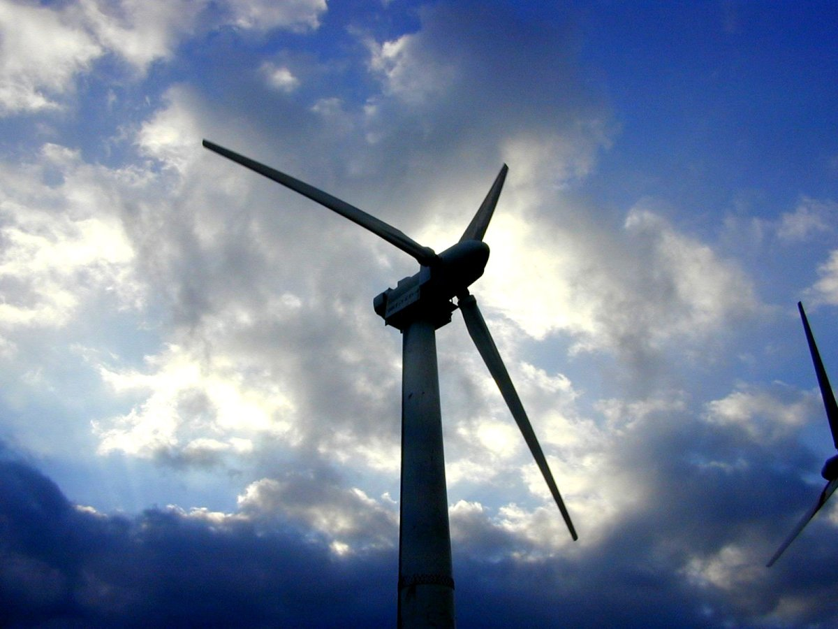 A Mitsubishi 250 kW wind turbine of the Kama'oa Wind Farm in Ka Lae (a.k.a. South Point), Big Island of Hawaii. The wind farm came online in 1987, was decomissioned in 2006, and the nearby Pakini Nui wind farm replaced it with 14 larger GE Energy 1.5 MW wind turbines in 2007.